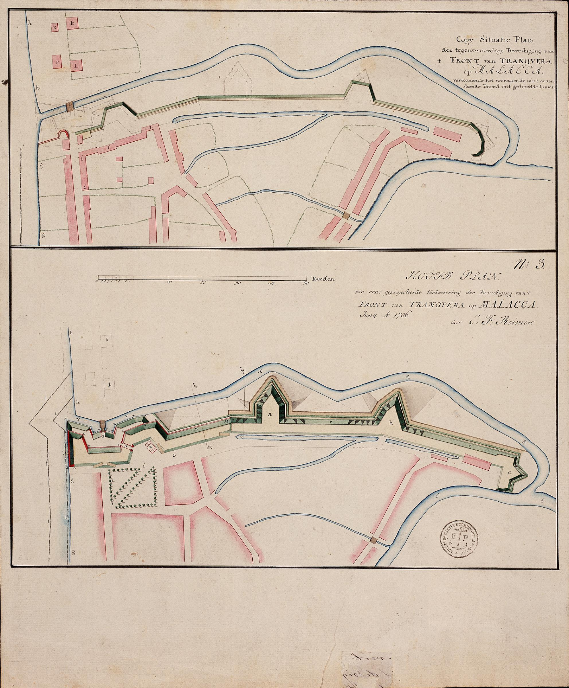 Title in the Leupe catalogue (NA): Situatie-plan der tegenwoordige bevestiging van 't front van Tranquera op Malacca. The top of the chart has been fortified with two strips of Japanes paper. Notes on reverse: Reg 6, Pag 27, No. 7C [letter 'C' could also be another letter] / no. 228 / 597 [in pencil].